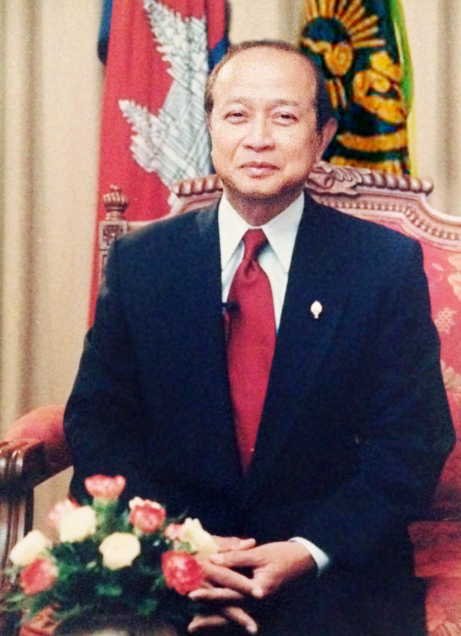 Official portrait of Norodom Ranariddh, taken around 2006